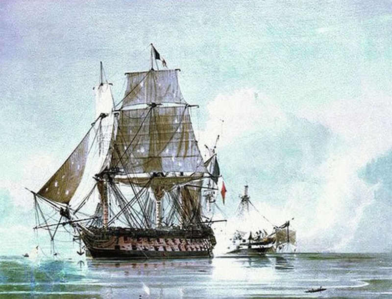 Action between H.M.S. Leander and the French National Ship Le Genereux, August 18th 1798